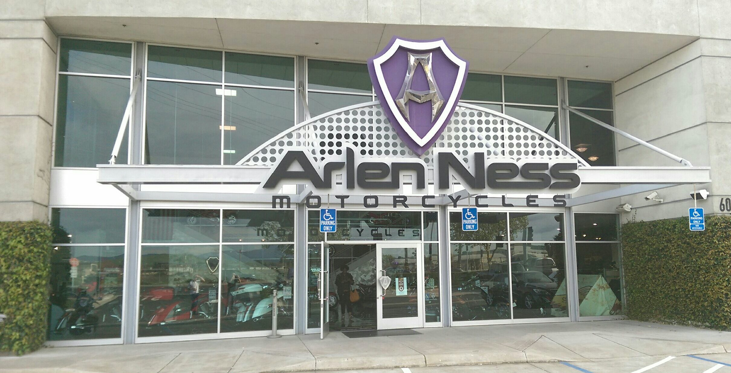 The entrance to the Arlen Ness Motorcycles dealership in Dublin, California. Photo by Jim Heaphy.